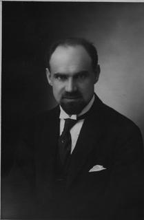 Prime Minister of Lithuania - Ernestas Galvanauskas (1922 Feb 2 – 1923 Feb 23 and 1923 Feb 23 – 1923 Jun 29)